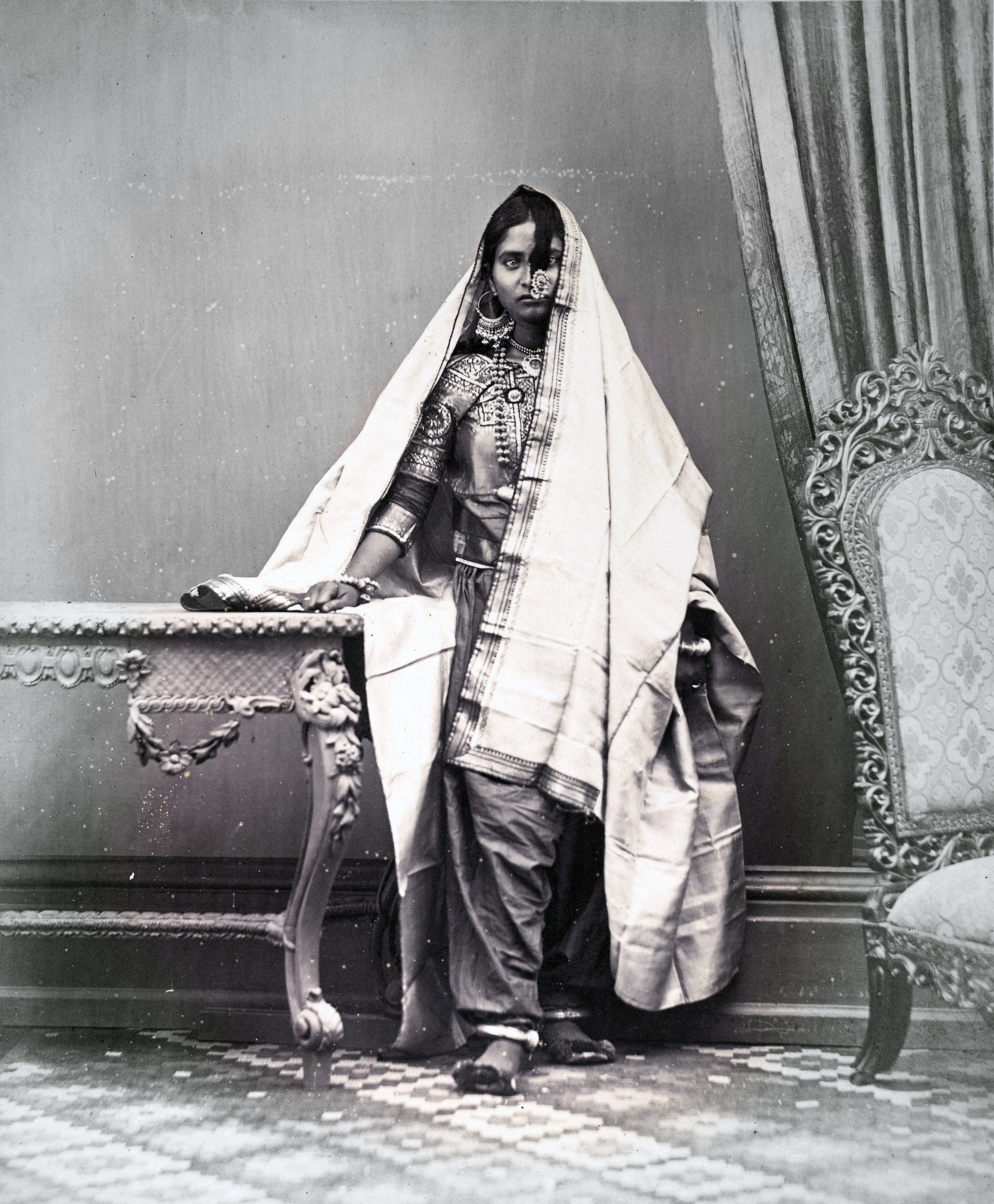 Portrait of a Muslim girl from Sindh, showing method of wearing ear and nose rings, necklace and anklets Full-length standing studio portrait of a Muslim girl from Karachi in Sind, Pakistan, taken by Michie and Company in c. 1870, from the Archaeological Survey of India Collections. This is one of a series of photographs commissioned by the Government of India in the 19th century, in order to gather information about the dress, customs, trade and religions of the different racial groups on the sub-continent. Images like this one were exhibited at European international exhibitions during the nineteenth century. The girl in the photograph demonstrates the method of wearing ear and nose rings, necklace and anklets. She is also wearing ceremonial dress and has a lock of hair pulled down over her forehead. Oriental and India Office Collection, British Library.